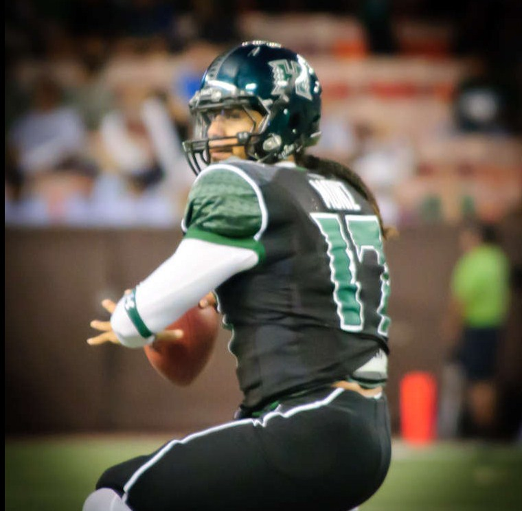 Bryant Moniz prepares to pass